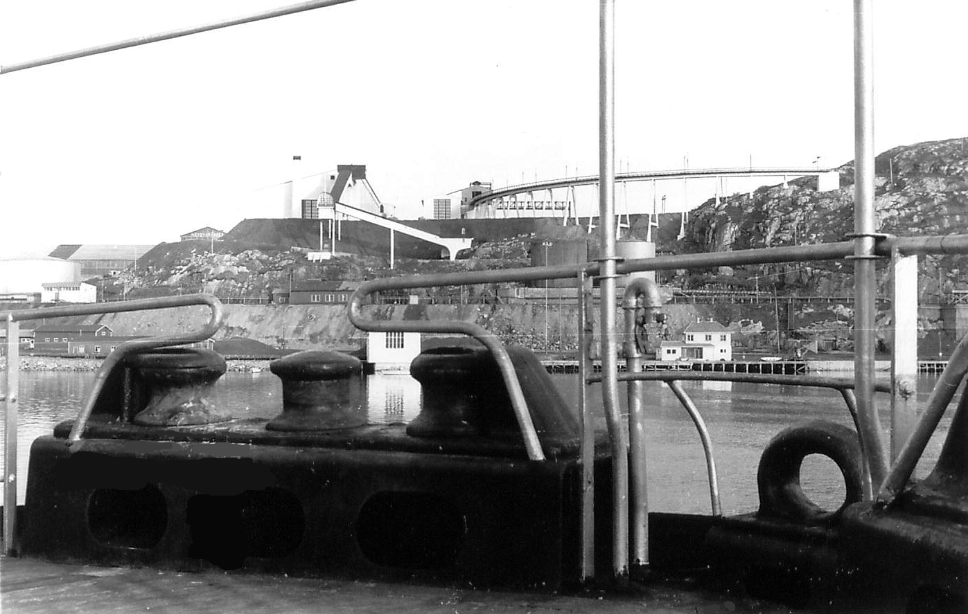 Ore loading facility at the port of Kirkenes (Norway) - 1957